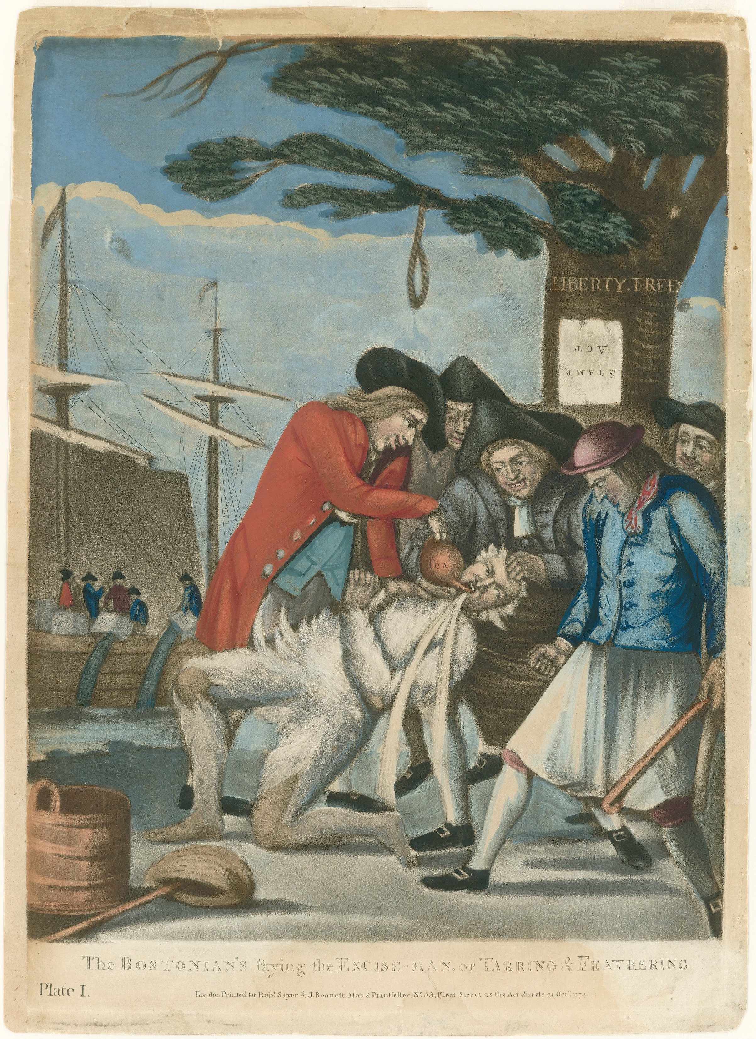 A depiction of the tarring and feathering of Commissioner of Customs John Malcolm, a Loyalist, by five Patriots on 5 January 1774 under the Liberty Tree in Boston, Massachusetts. Tea is also being poured into Malcolm's mouth. The print shows the Boston Tea Party occurring in the background, though that incident had in fact taken place four weeks earlier. See The Bostonians paying the excise-man, or tarring and feathering. History Matters: The U.S. Survey Course on the Web, American Social History Project, Center for Media and Learning (CUNY Graduate Center) and the Roy Rosenzweig Center for History and New Media (George Mason University). Retrieved on 1 May 2011.